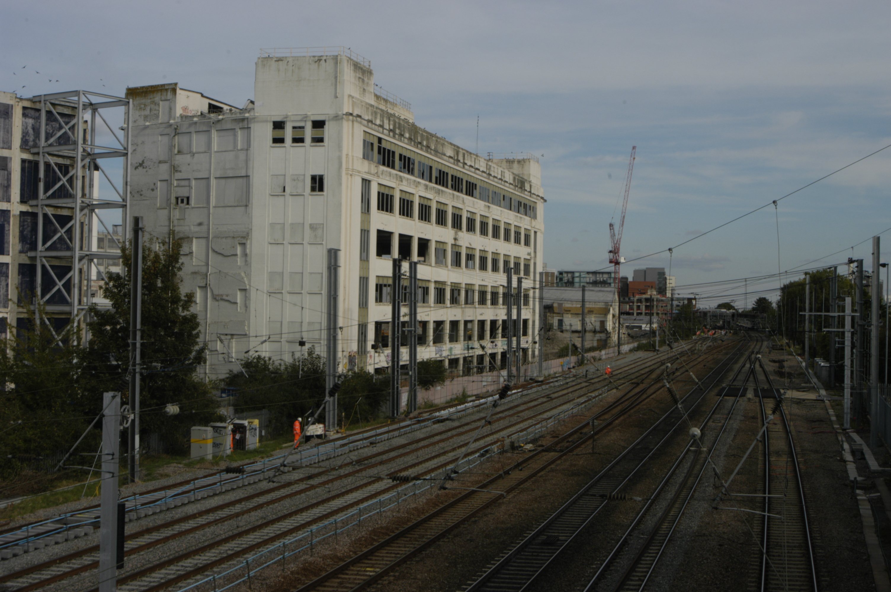 Photo (by me, R. de Salis, Rodolph (talk) 23:56, 26 November 2014 (UTC)) of the Great Western Railway and part of the former HMV & EMI factory at Harlington, looking east, 2014. At the date of this photo the former HMV/EMI site looks derlict. Note also the overhead cantenary on the route.